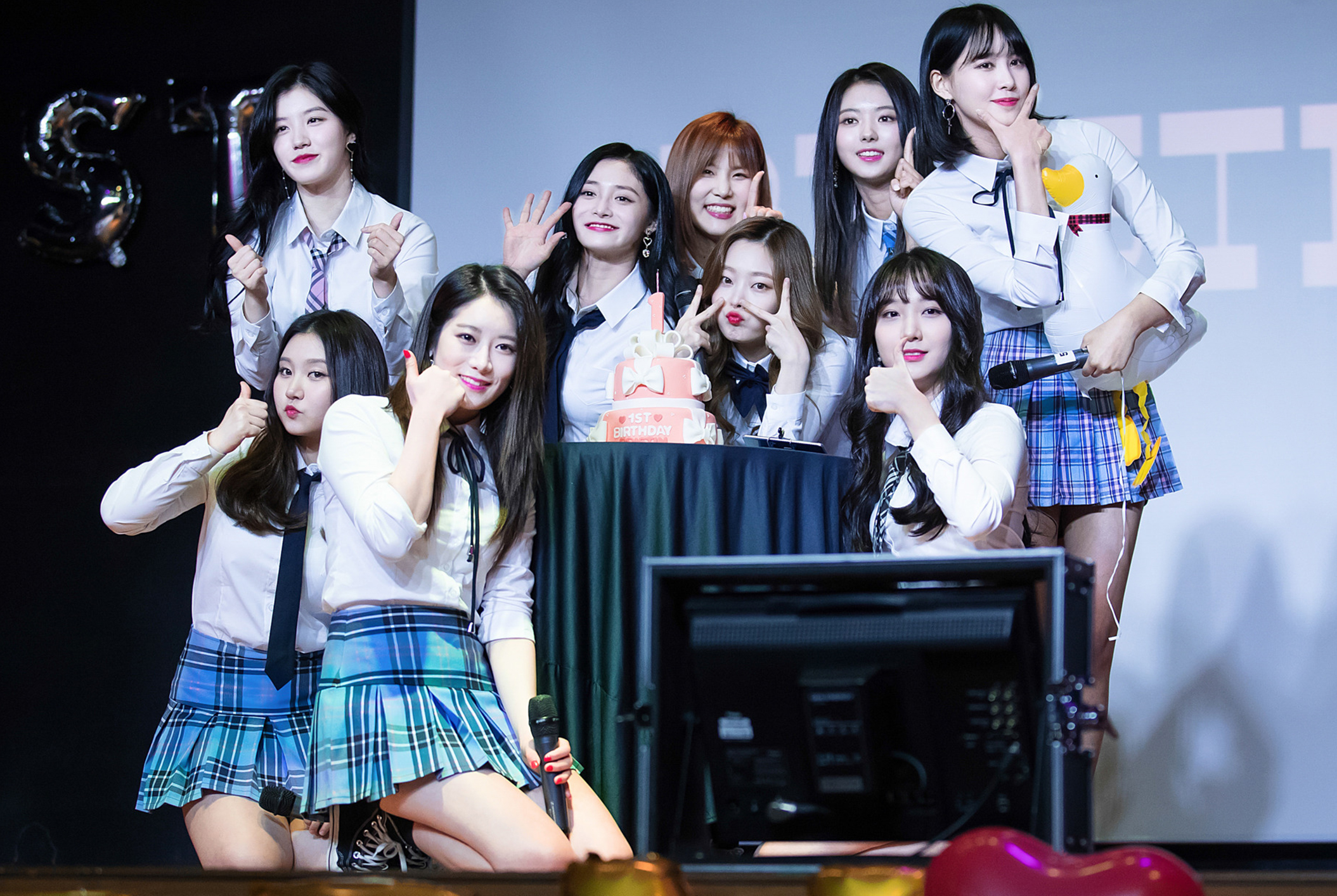 Pristin at a fanmeeting on March 21, 2018.